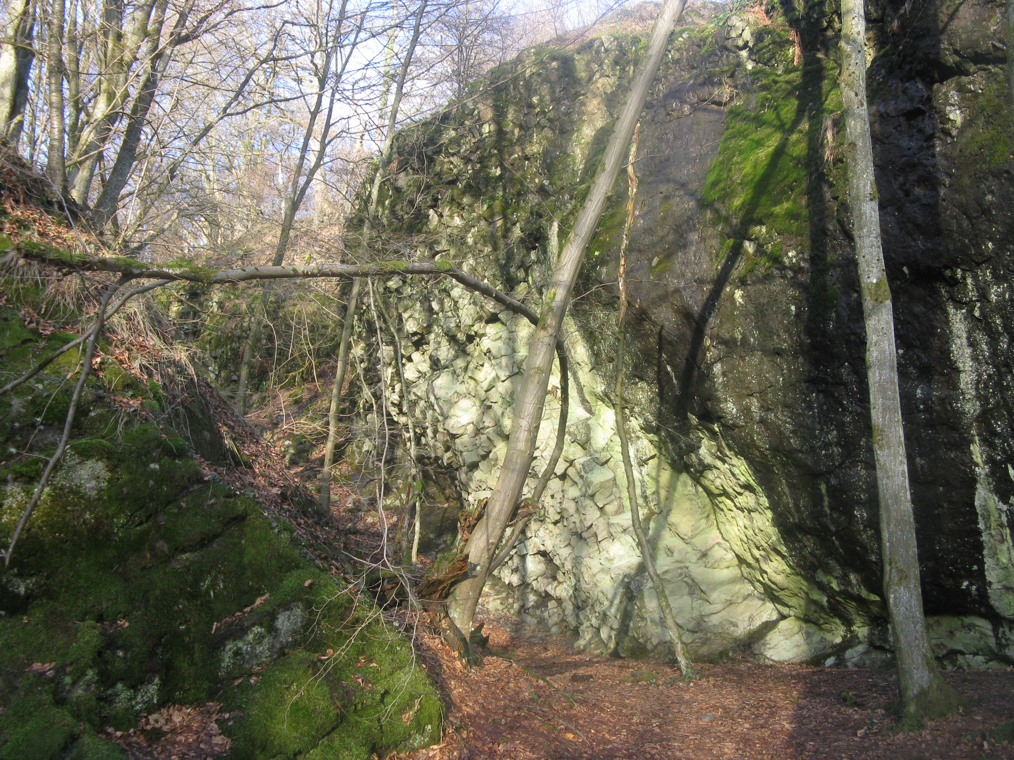 Beilstein, Jossgrund, Spessart/Germany